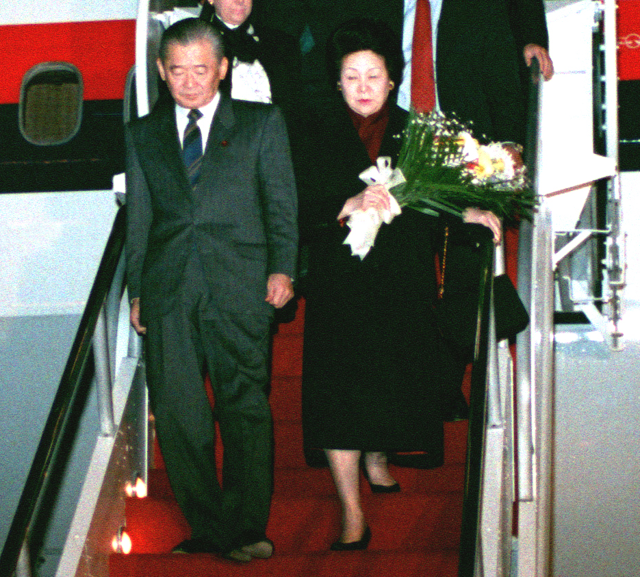 Japanese Prime Minister Noboru Takeshita (竹下登, 1924–2000) and his wife disembark from their plane upon arrival for a state visit.